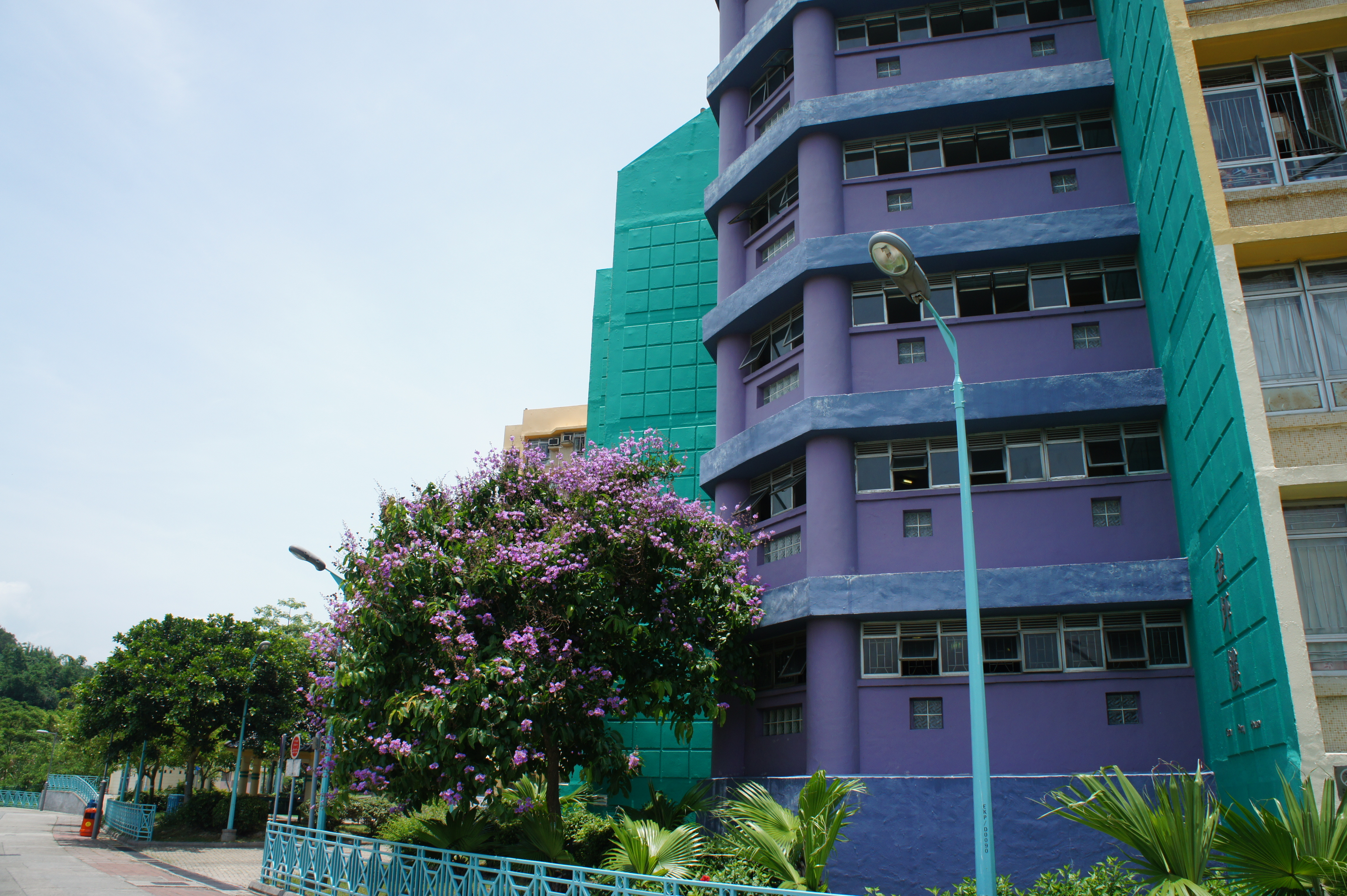 Kam Peng House, Kam Peng Estate, Peng Chau, New Territories, Hong Kong.